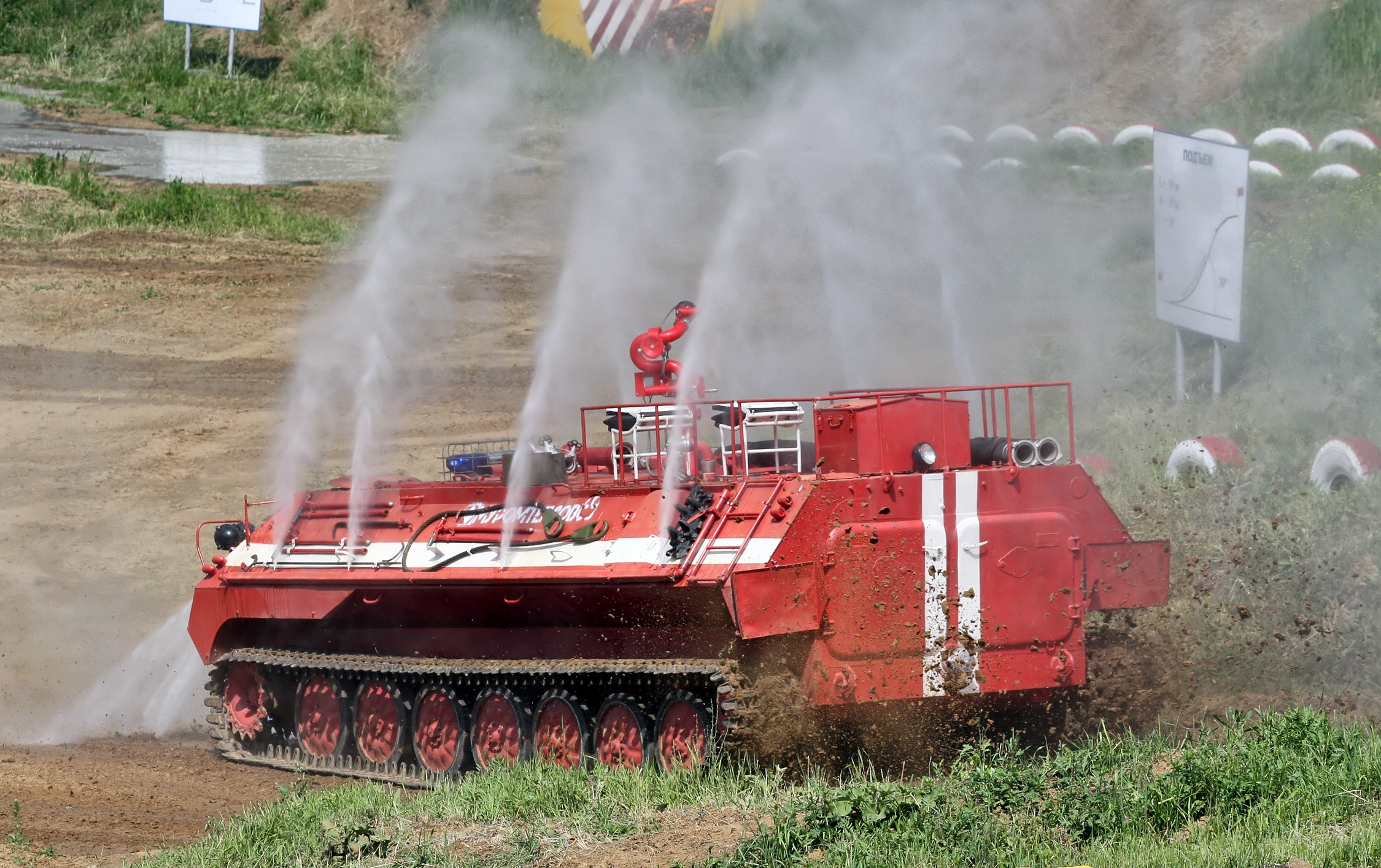 The firefighting tank MT-LBu-GPM-10 during a demonstration at Bronnitsy test rage.